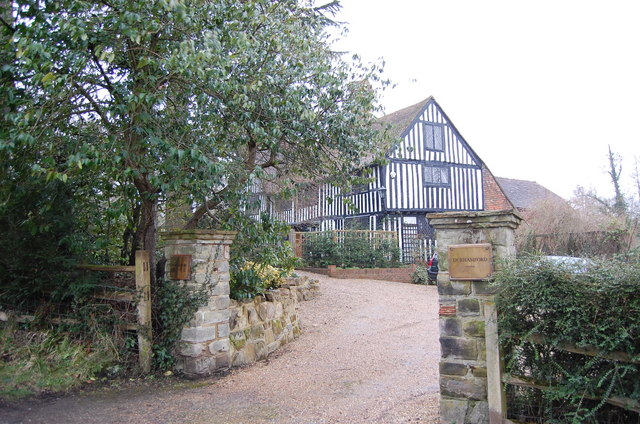 Durhamford Manor, Stream Lane